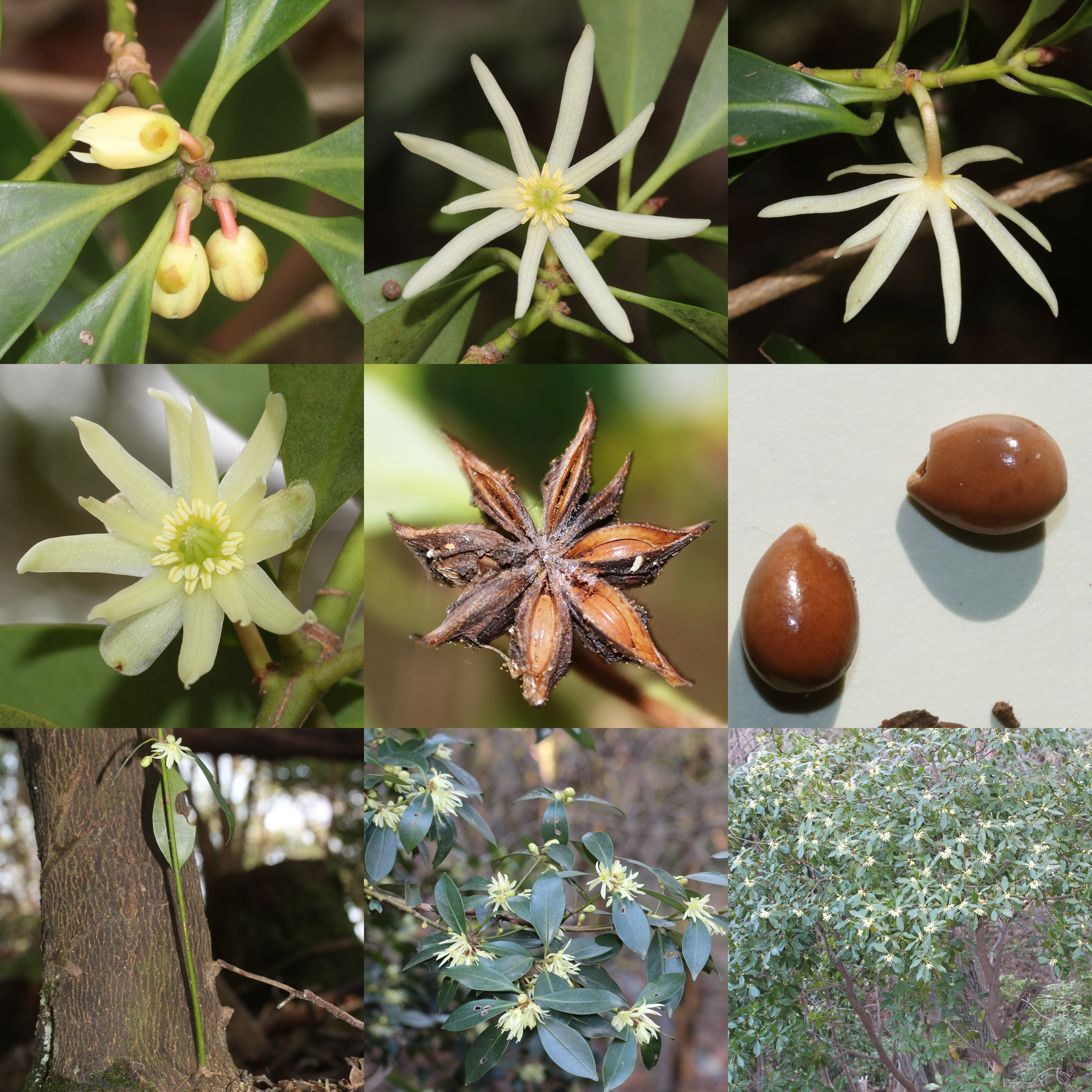 Montage of Illicium anisatum in Japan.